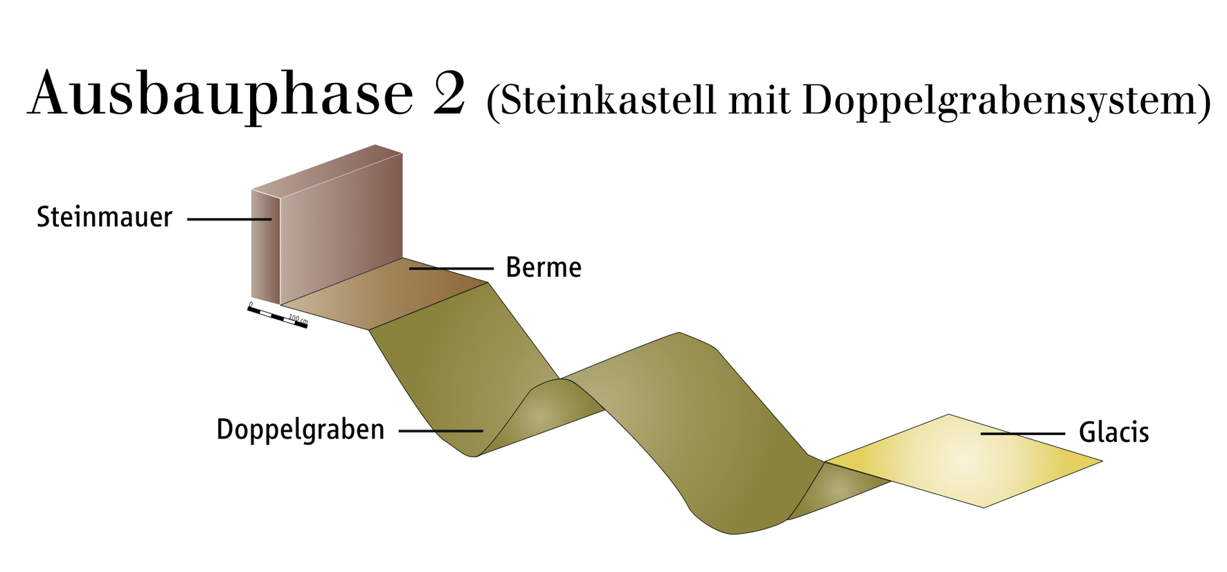 Fortifacation of fort comagena: stage of extension